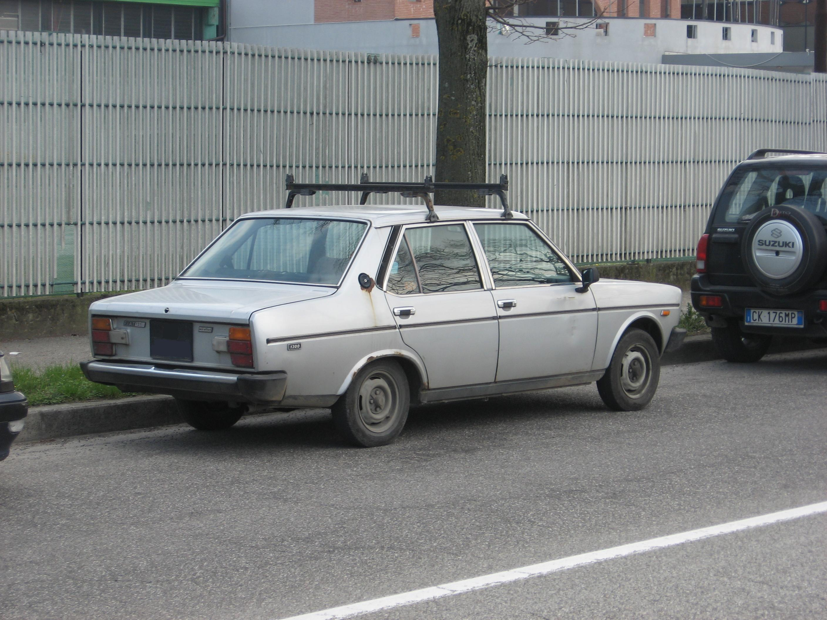 Subject:Fiat 131 Author:Luc106 Date:March 15th, 2007 Event:Old Timer Show 2008 Place/Country: Forlì, Italy I release all rights in the public domain.